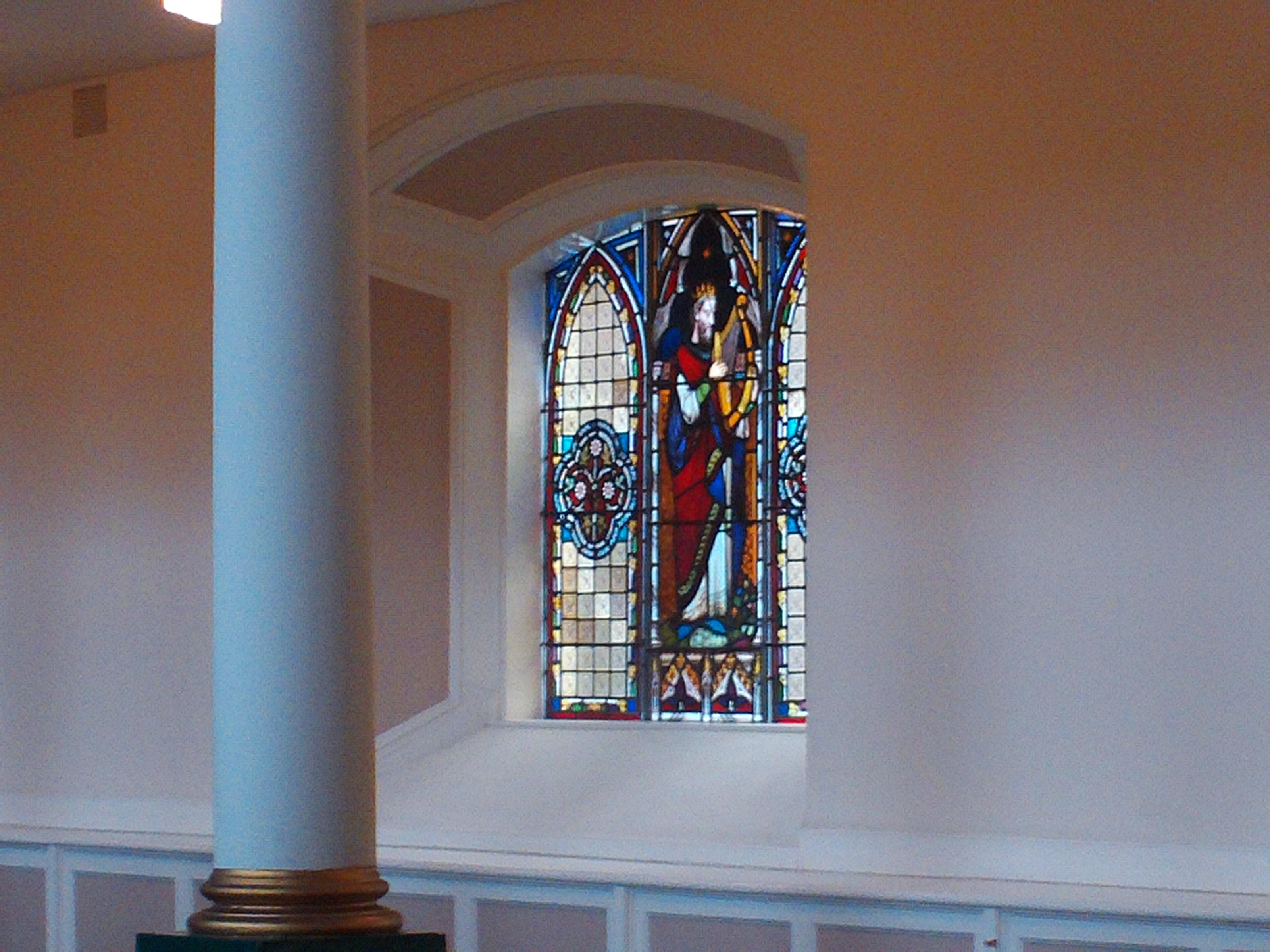 Small stained glass window, St. George's Church, High Street, Belfast, U.K.